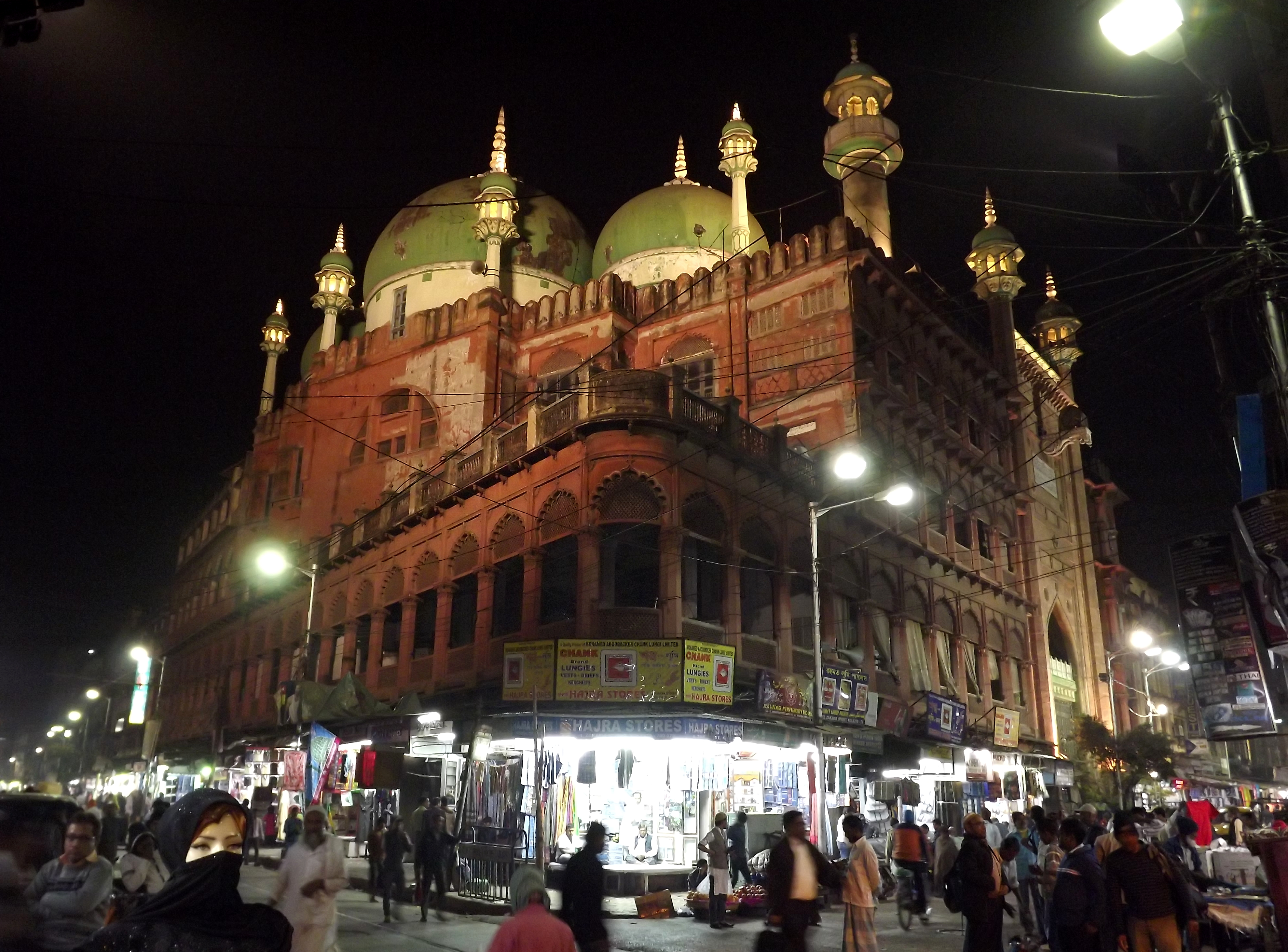 Nakhoda Mosque, Calcutta night view